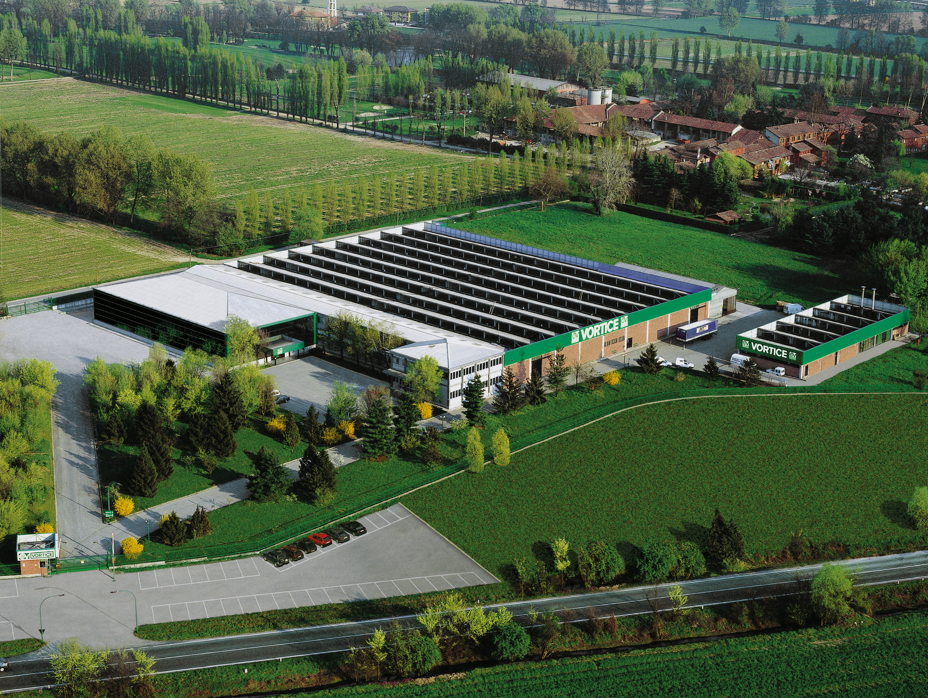 Vortice Headquarter - Tribiano (Milan)